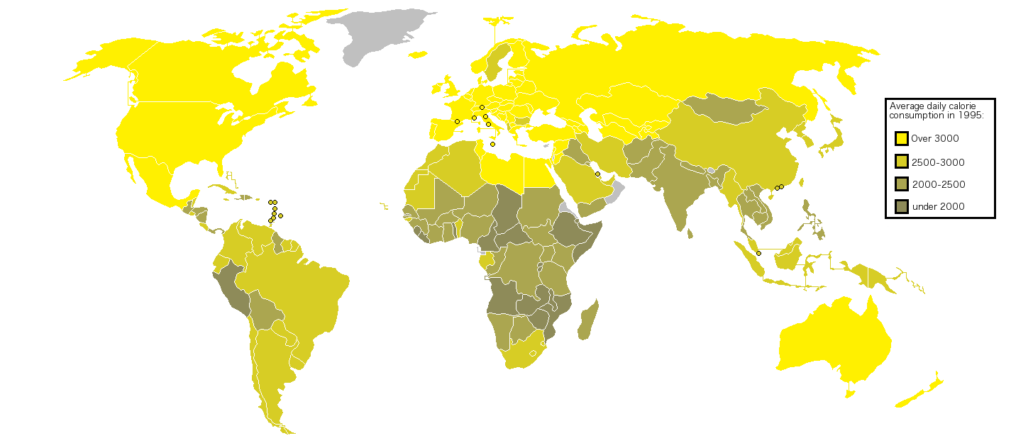 A map showing the average daly calorie consumption in countries all over the world. Oman, Greenland, and Eritrea do not have sufficient data.